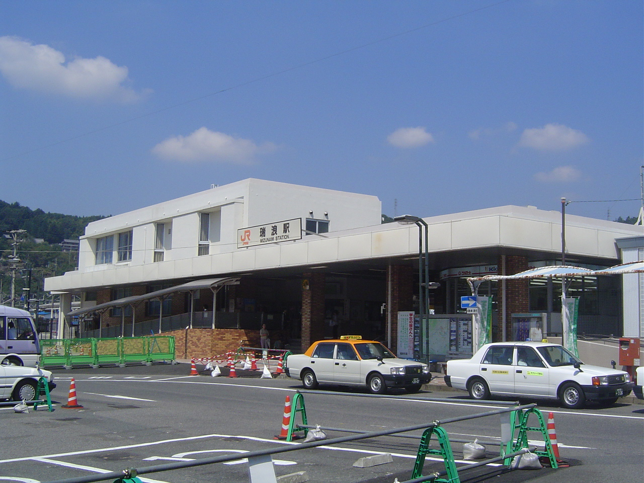 Mizunami Station on the JR Central Chuo Main Line